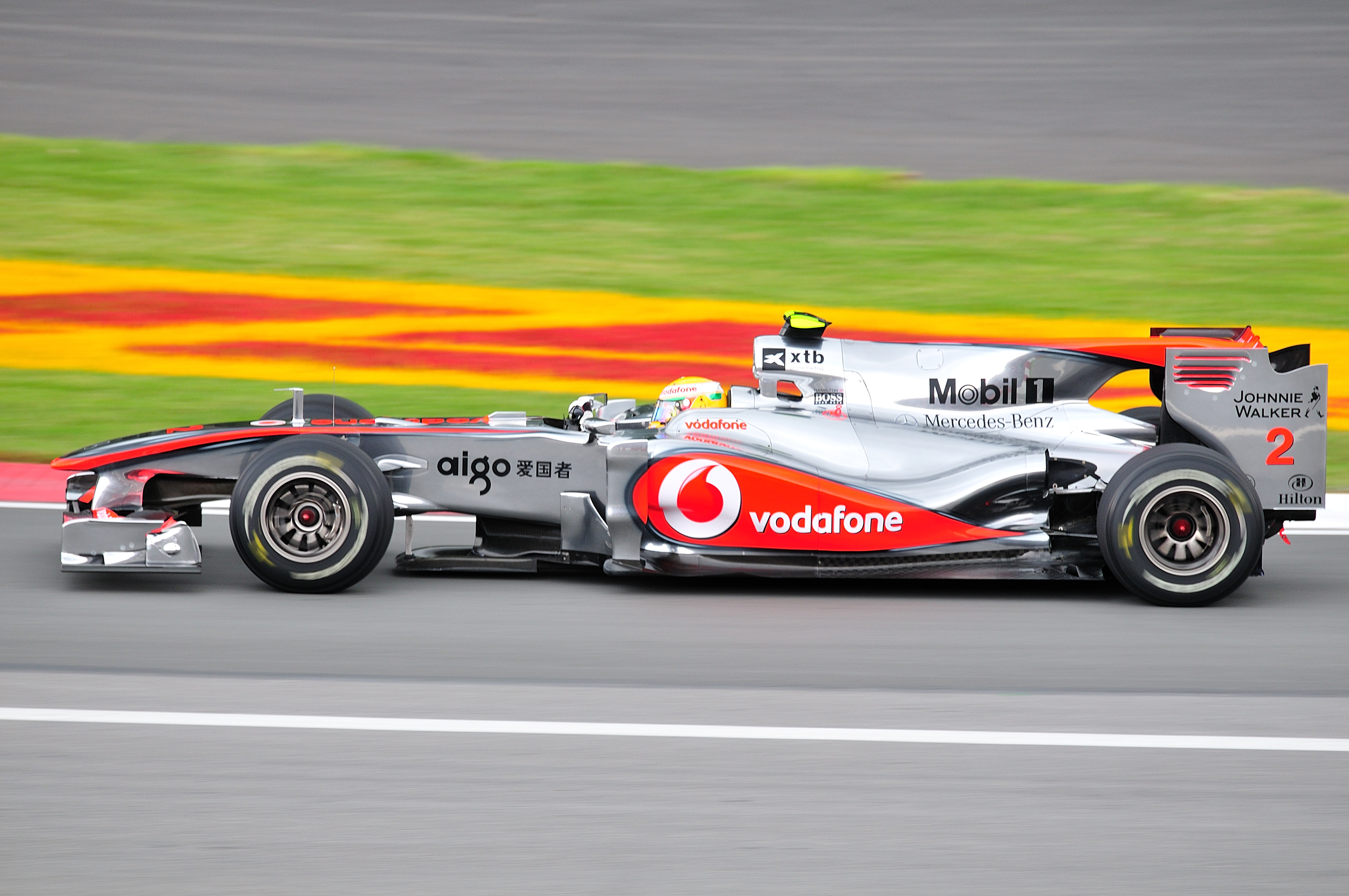 Lewis Hamilton driven McLaren MP4-25 at canada GP 2010